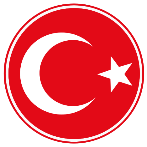 Emblem of the Republic of Turkey, used in the logo of the Turkish Parliament, a number of ministries; as the badge of the national sports teams and athletes, and in the non-digital identity cards.